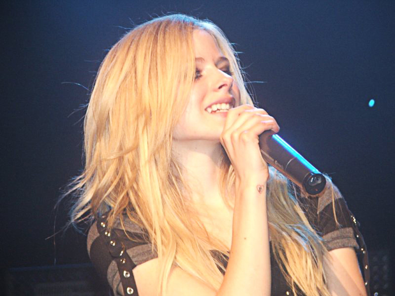 Avril Lavigne having a concert in Geneva